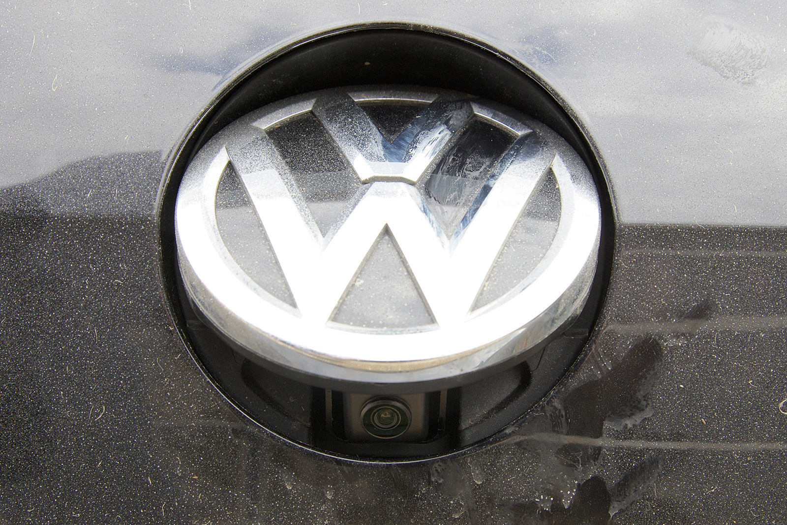 Rearview camera of a VW Golf